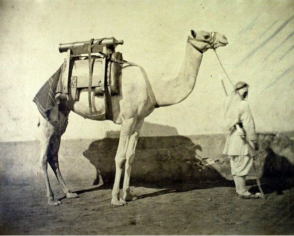 Gustave_Le_Gray; Dromadaire_d_artillerie_Egypt_cca_1866 tirage albumine 24 x 31 cm Courtesy baudoin lebon, Paris